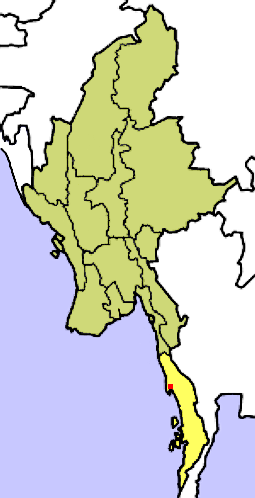 Location of Tanintharyi (Tenasserim) Division in Myanmar w/ capital.